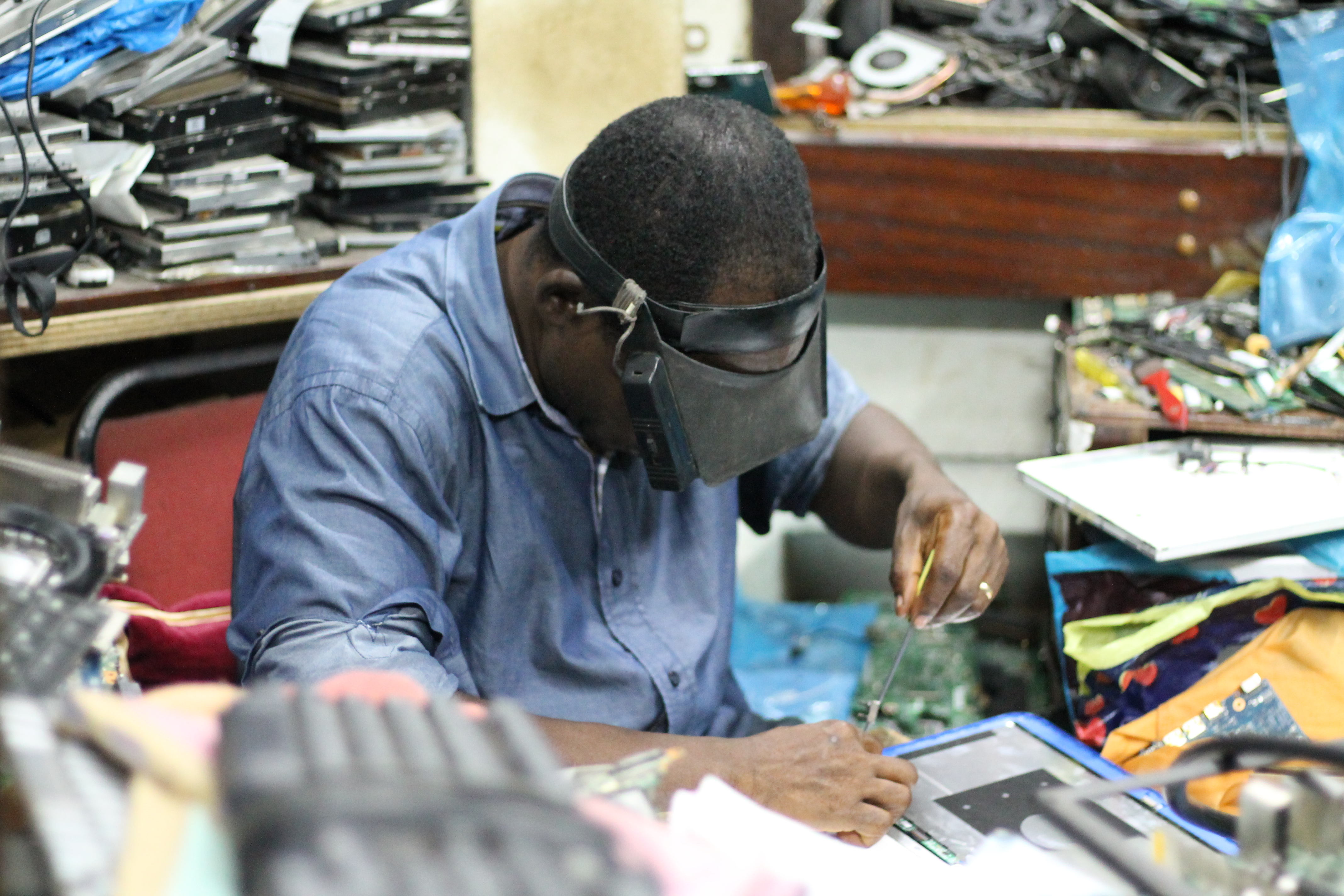 A Ghanaian hardware Technician Working on a laptop board in his shop in kingsway This is an image of "African people at work" from Ghana